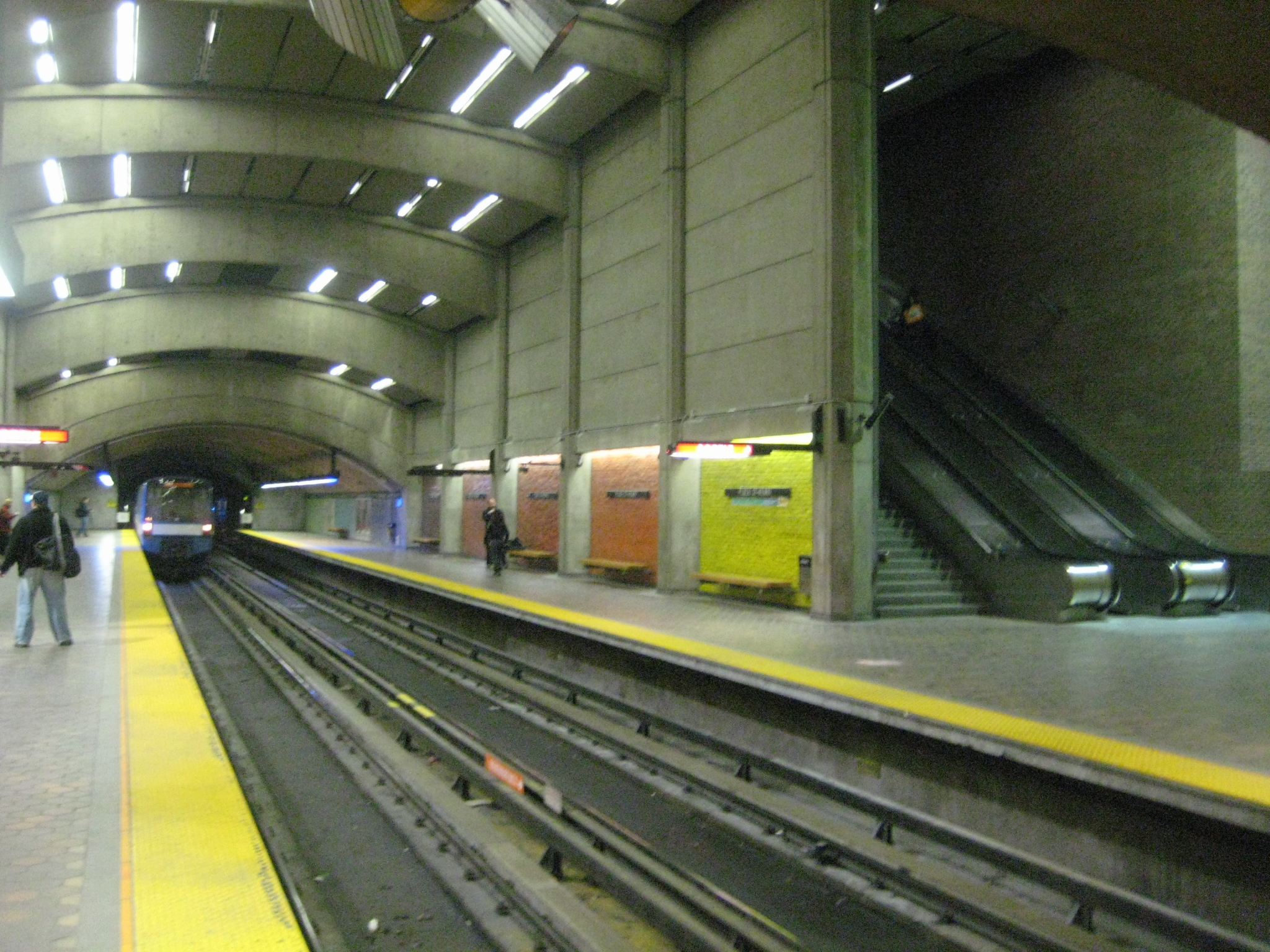 Place-Saint-Henri Station, Montreal Metro